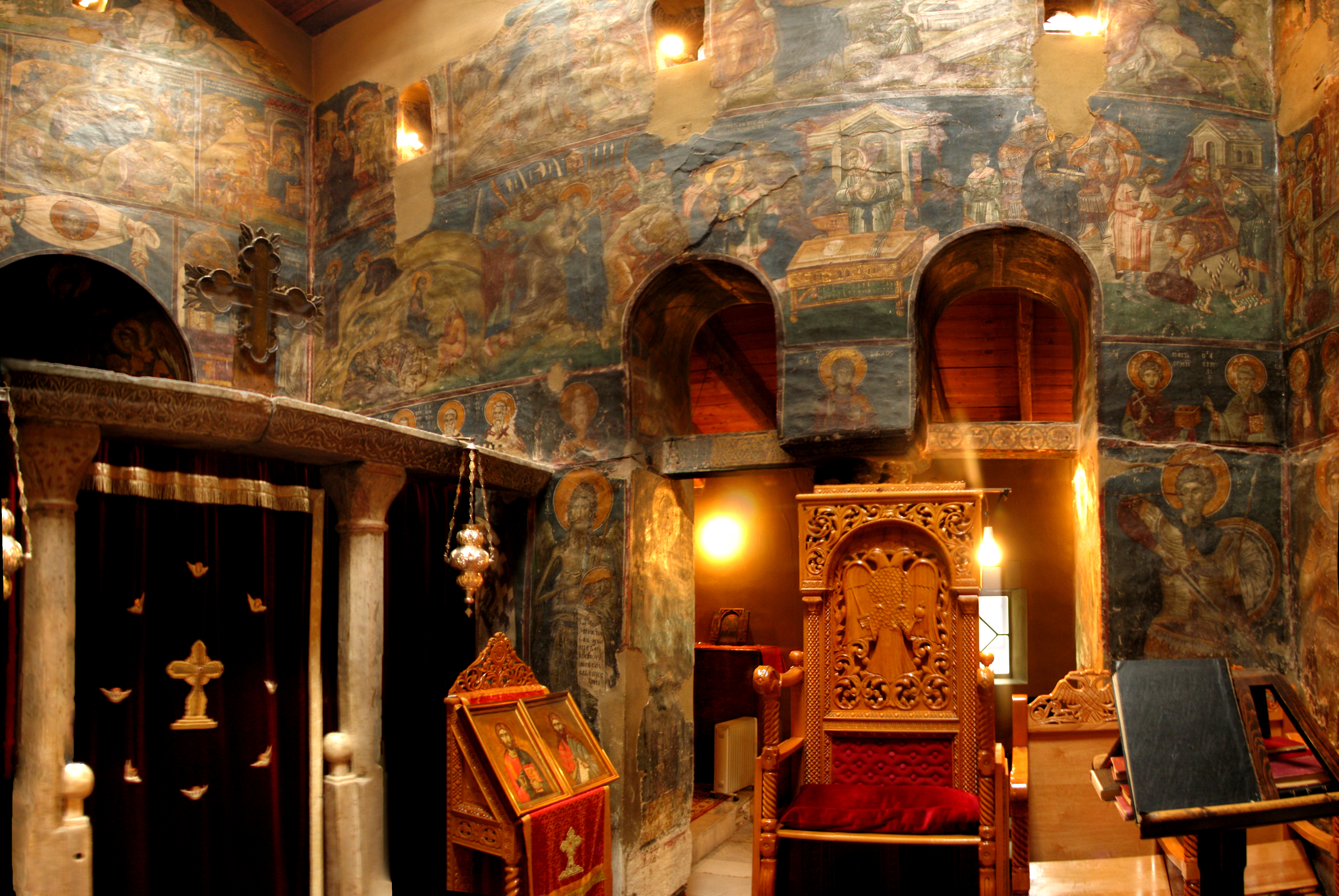 Inner view of hagia Nicolaos Orphanos Bycanthine church, Thessaloniki, Greece